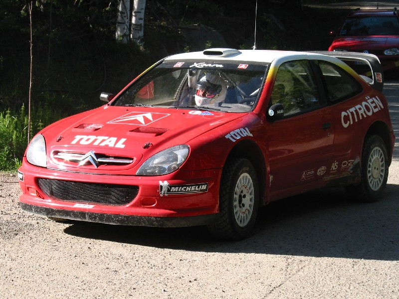 Citroën World Rally Team with their drivers Sébastien Loeb and Thomas Rådström testing in Finland in May, 2002.